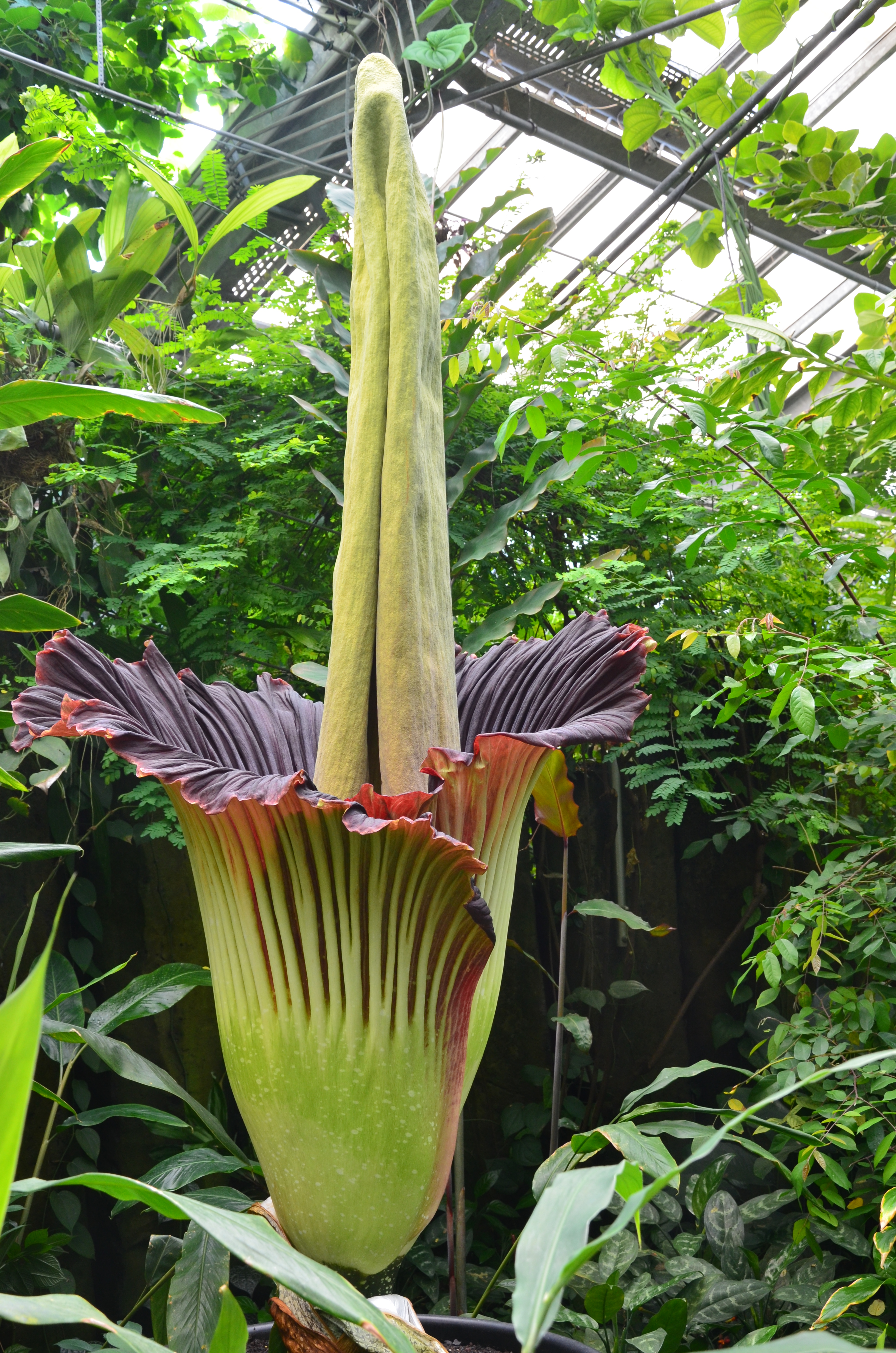 Amorphophallus titanum blooming again at ÖBG (Bayreuth University) after just 10 months.